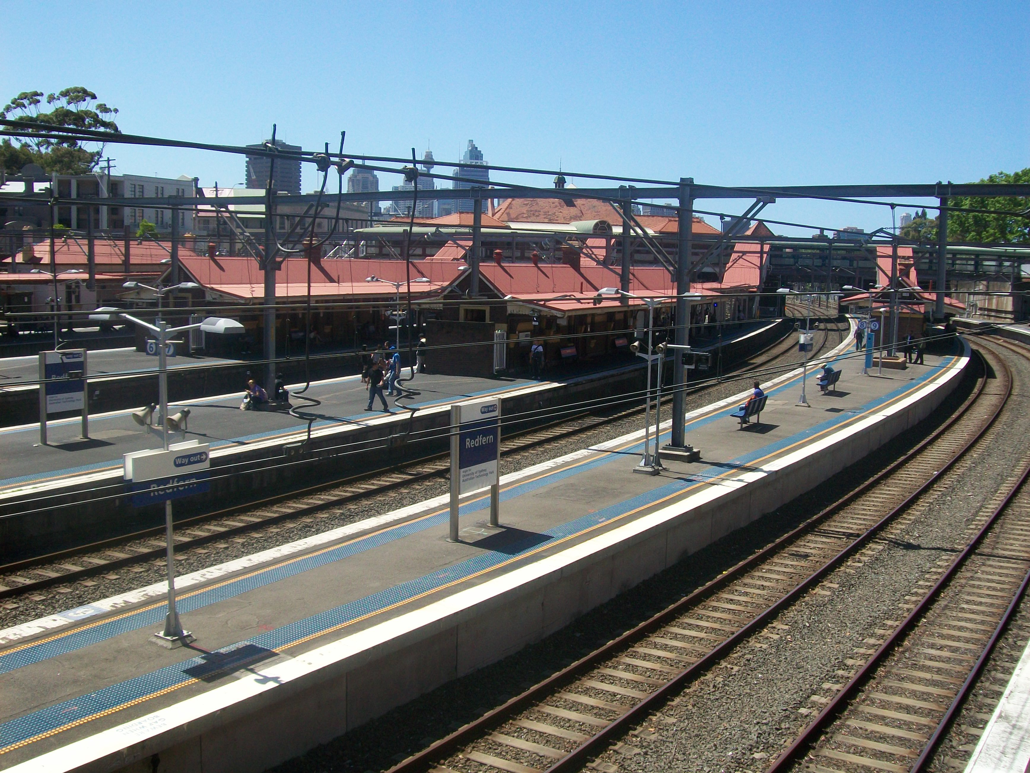 redfern railway station